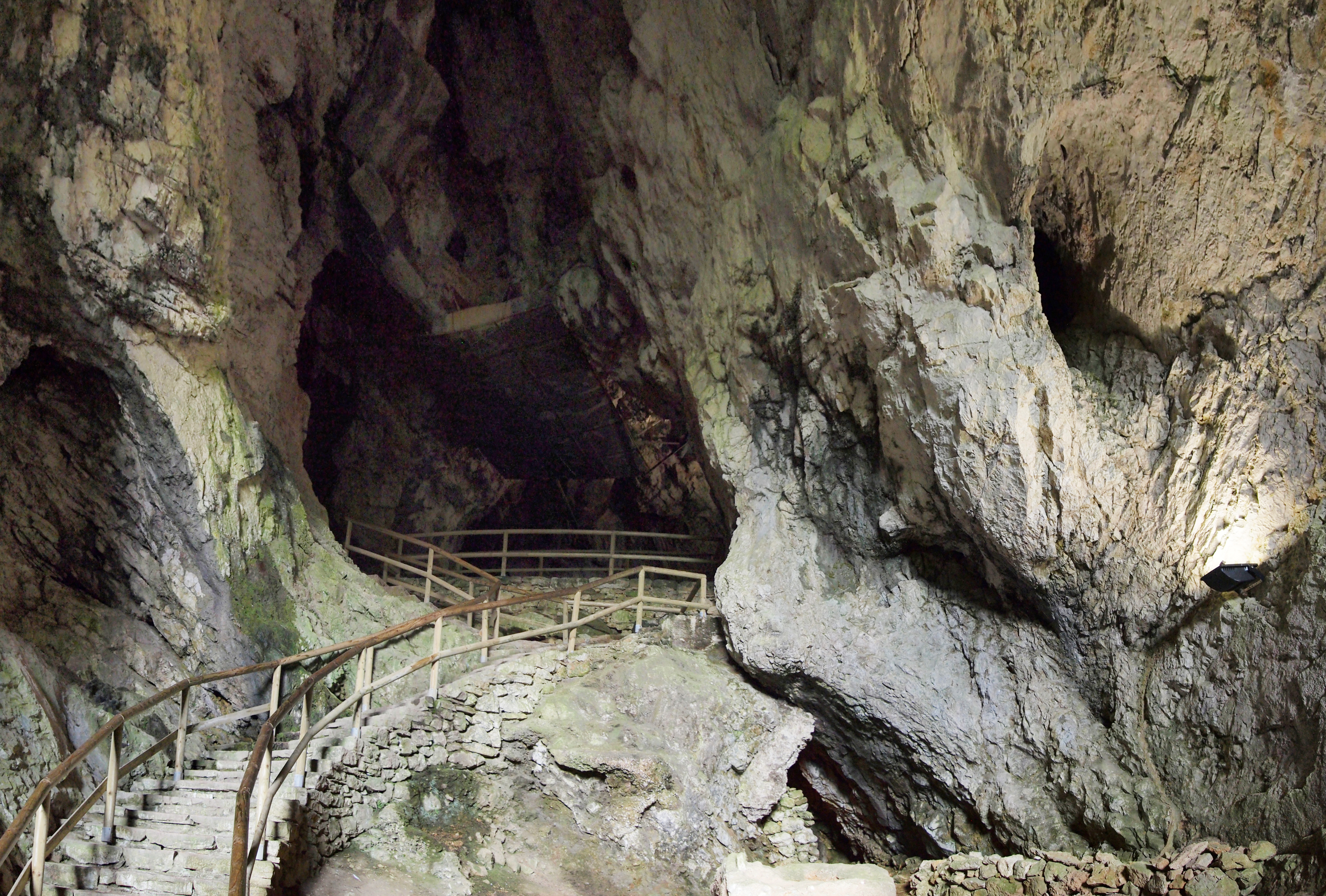 Cave in Predjama Castle. This photograph was taken with a Olympus E-PL1.